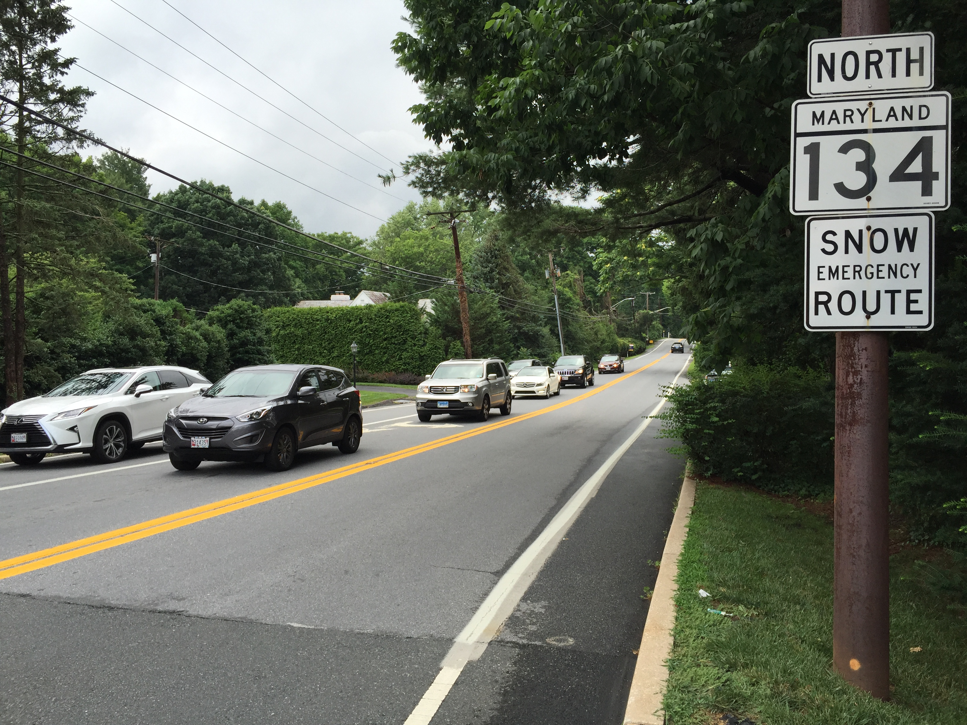 View north along Maryland State Route 134 (Bellona Avenue) at Maryland State Route 139 (Charles Street) in Towson, Baltimore County, Maryland